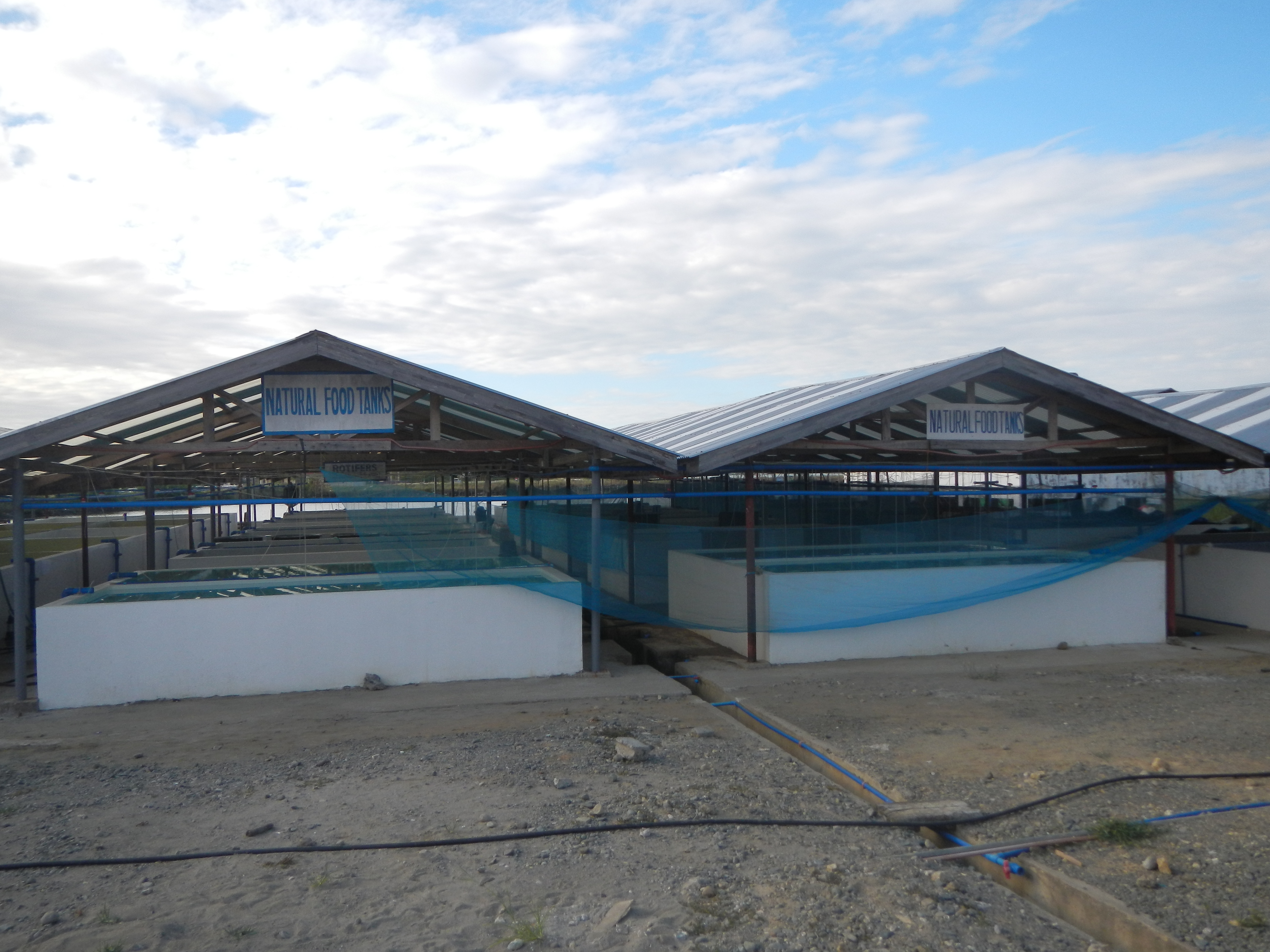 Multi-Species Fish and Invertebrate Breeding and Hatchery, (Oceanographic Marine Laboratory in Alaminos) Lucap, Alaminos, Pangasinan[1] Department of Agriculture, Bureau of Fisheries and Aquatic Resources, Regional Mariculture Technodemo Center (RMaTDeC) - April 20, 2011